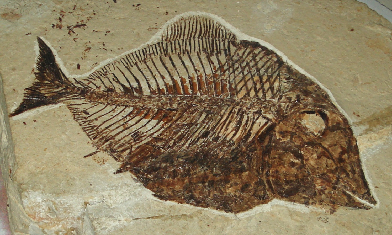 Fossil of Nursallia, an extinct fish